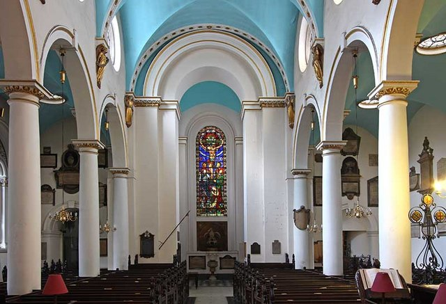 St Michael, Cornhill, London EC3 - West end, near to London, City of London, Great Britain.